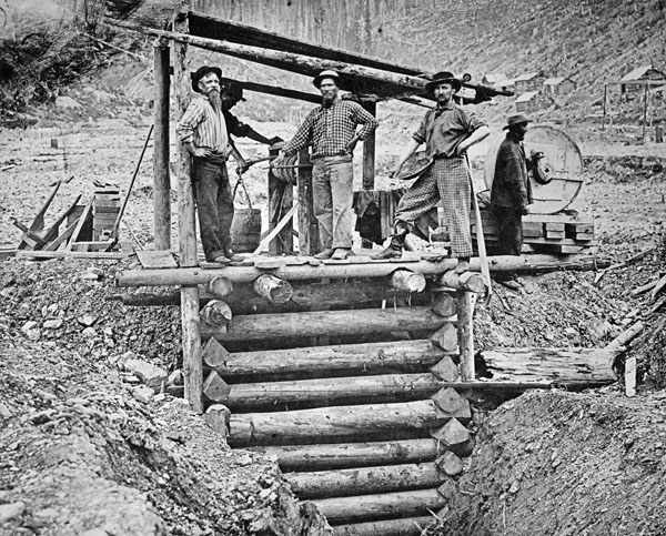 The Sheepshead shaft at Williams Creek; left: McLehanie; centre, unidentified; right, Hance.